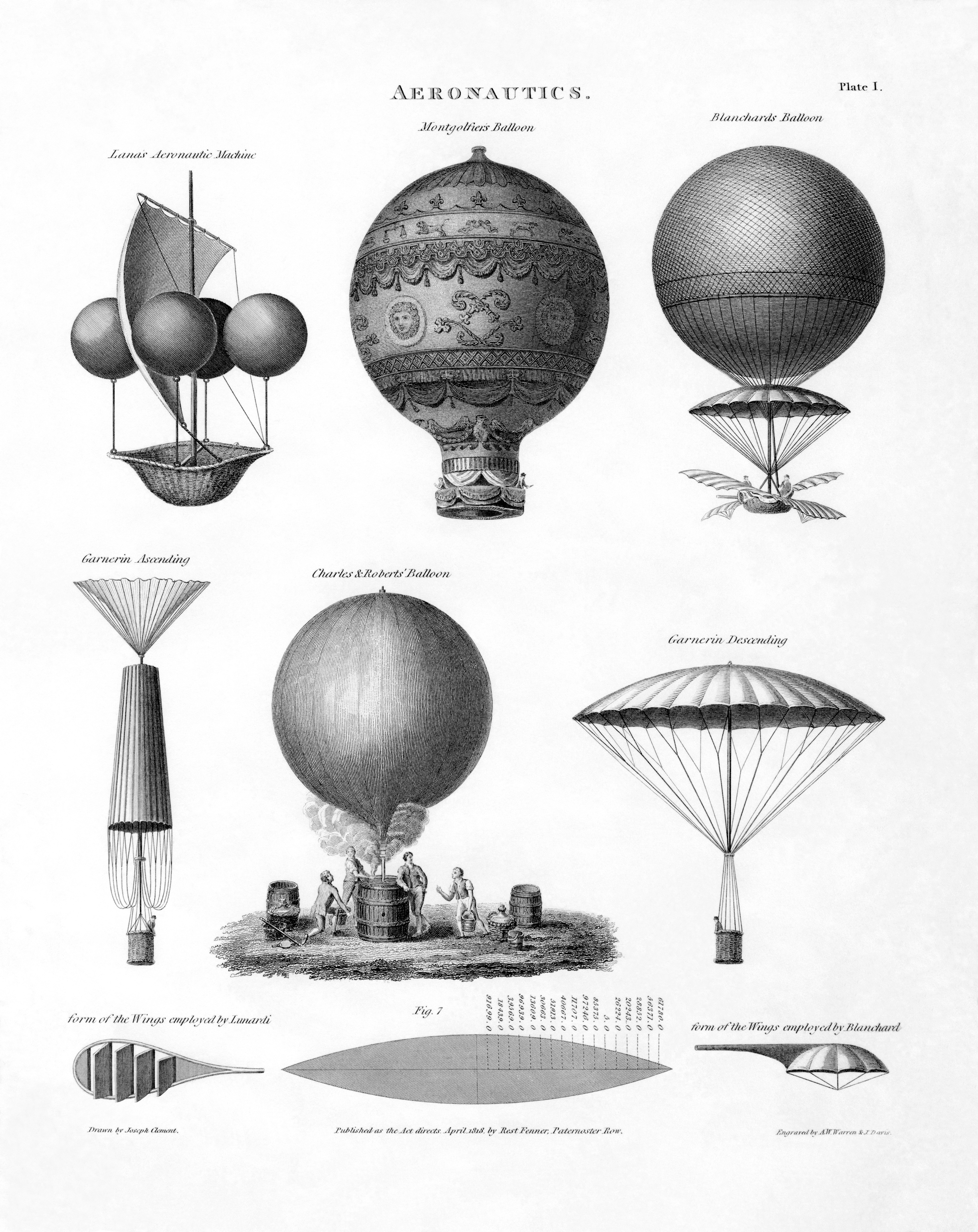 Technical illustration shows early balloon designs: "Lana's aeronautic machine," "Montgolfiers' balloon," "Blanchard's balloon," "Garnerin ascending [and] descending" in his parachute, the "Charles & Roberts' balloon" being inflated, the "form of the wings employed by Lunardi," and the "form of the wings employed by Blanchard."